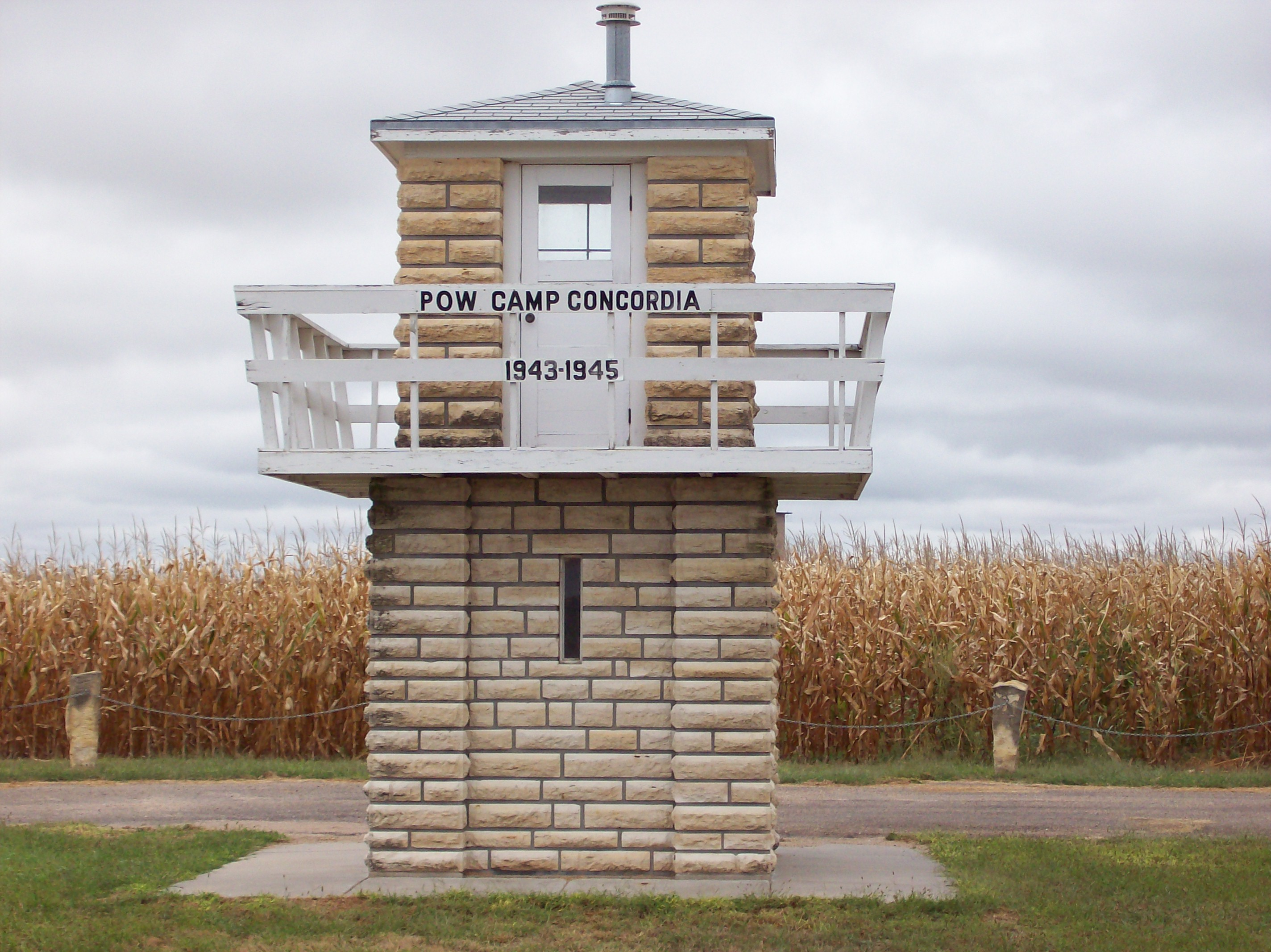 Camp Concordia guard tower, Cloud County. Photo taken September 2007 by Paul McDonald. Released to the Public Domain.